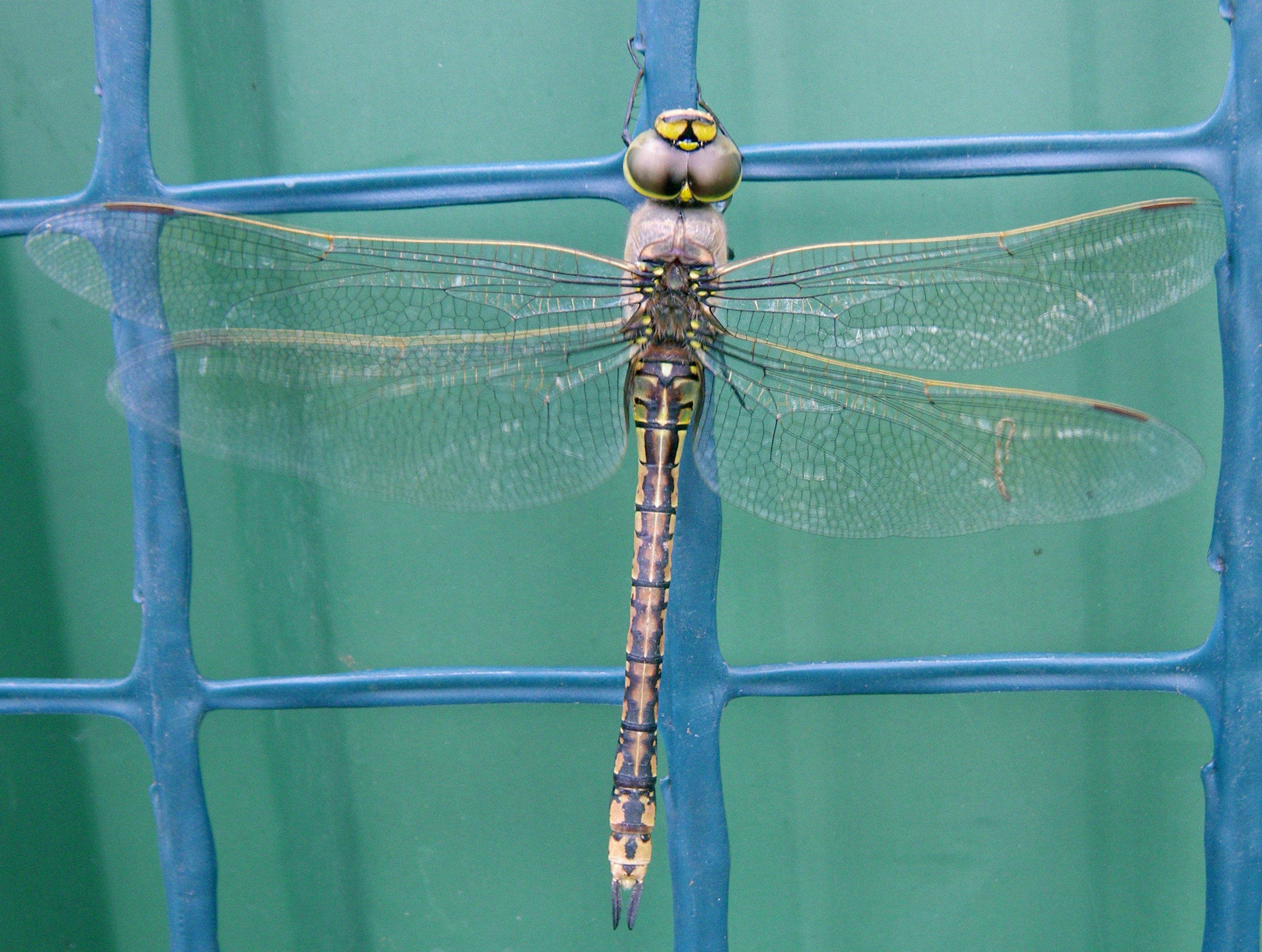 Australian Emporer Dragonfly (Hemianax papuensis) in Hurlstone Park, a suburb of Sydney, NSW, Australia.